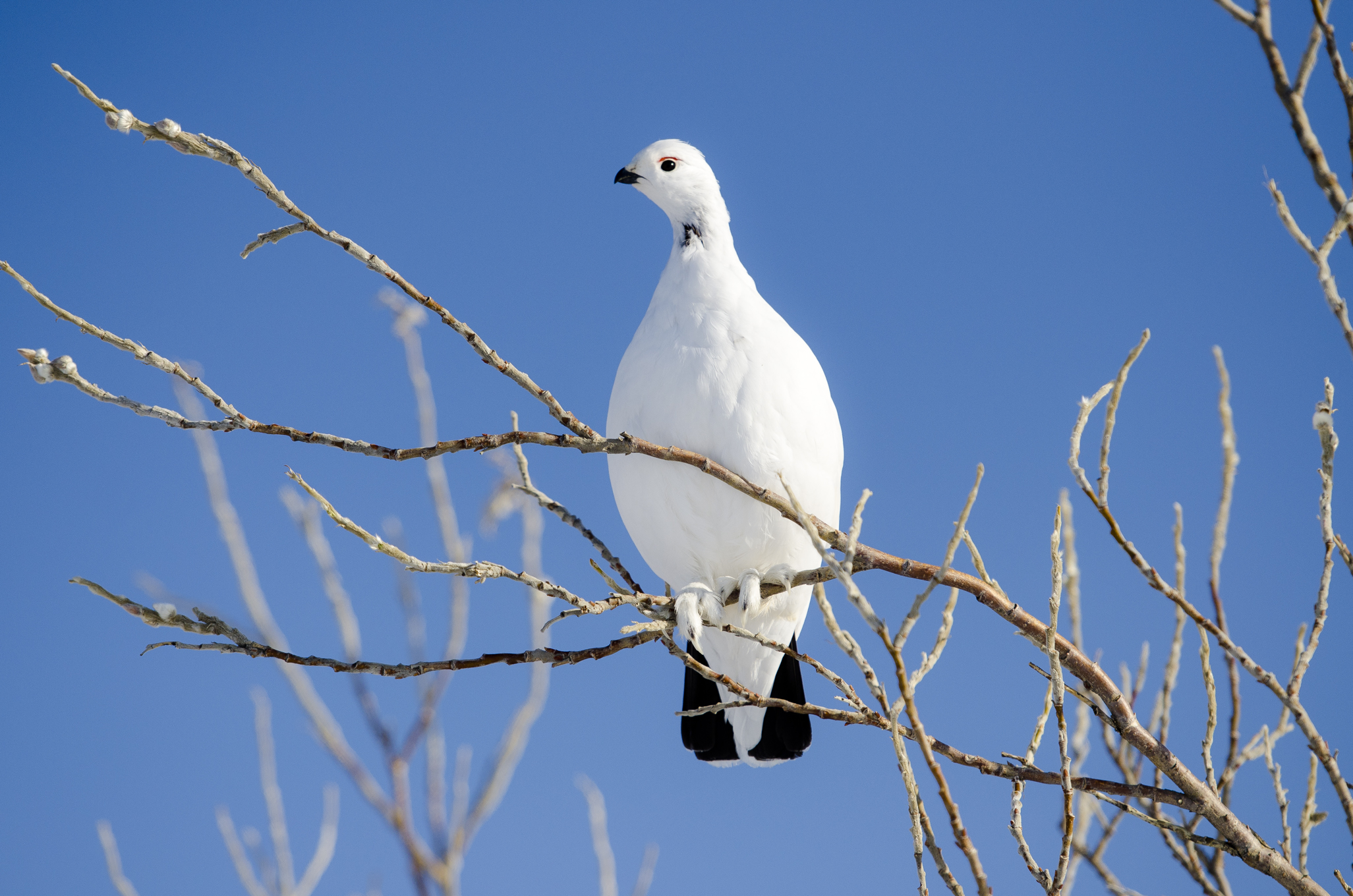 A willow ptarmigan with its winter feathers. (NPS Photos/Katie Thoresen)